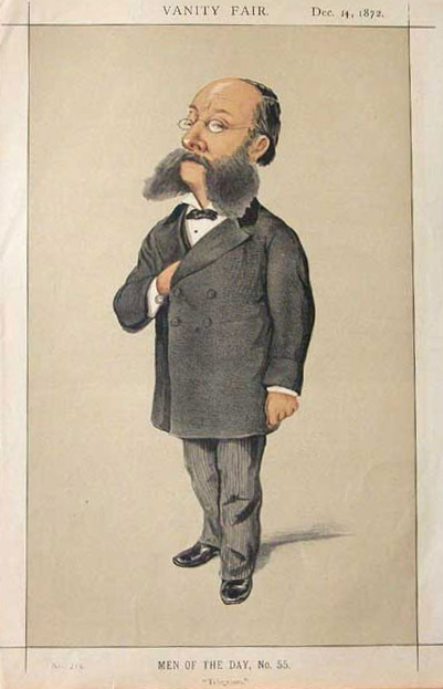 Caricature of Paul Julius Freiherr von Reuter (Baron De Reuter) (1816 – 1899). Caption read "Telegrams".